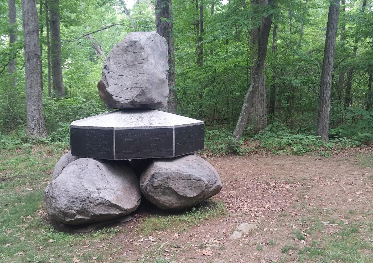 Edward Ephraim Cross monument in Rosewood